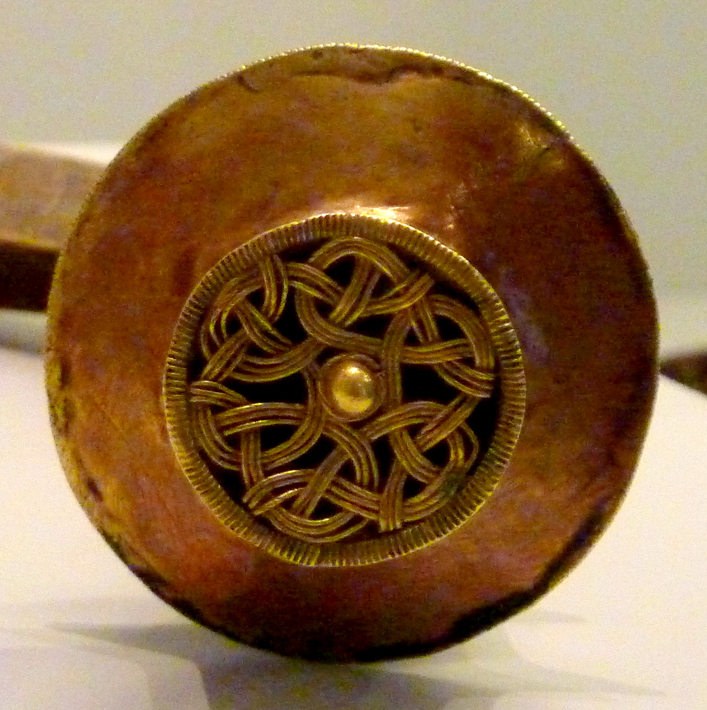 Iron Age Galician Torc of Foxados.